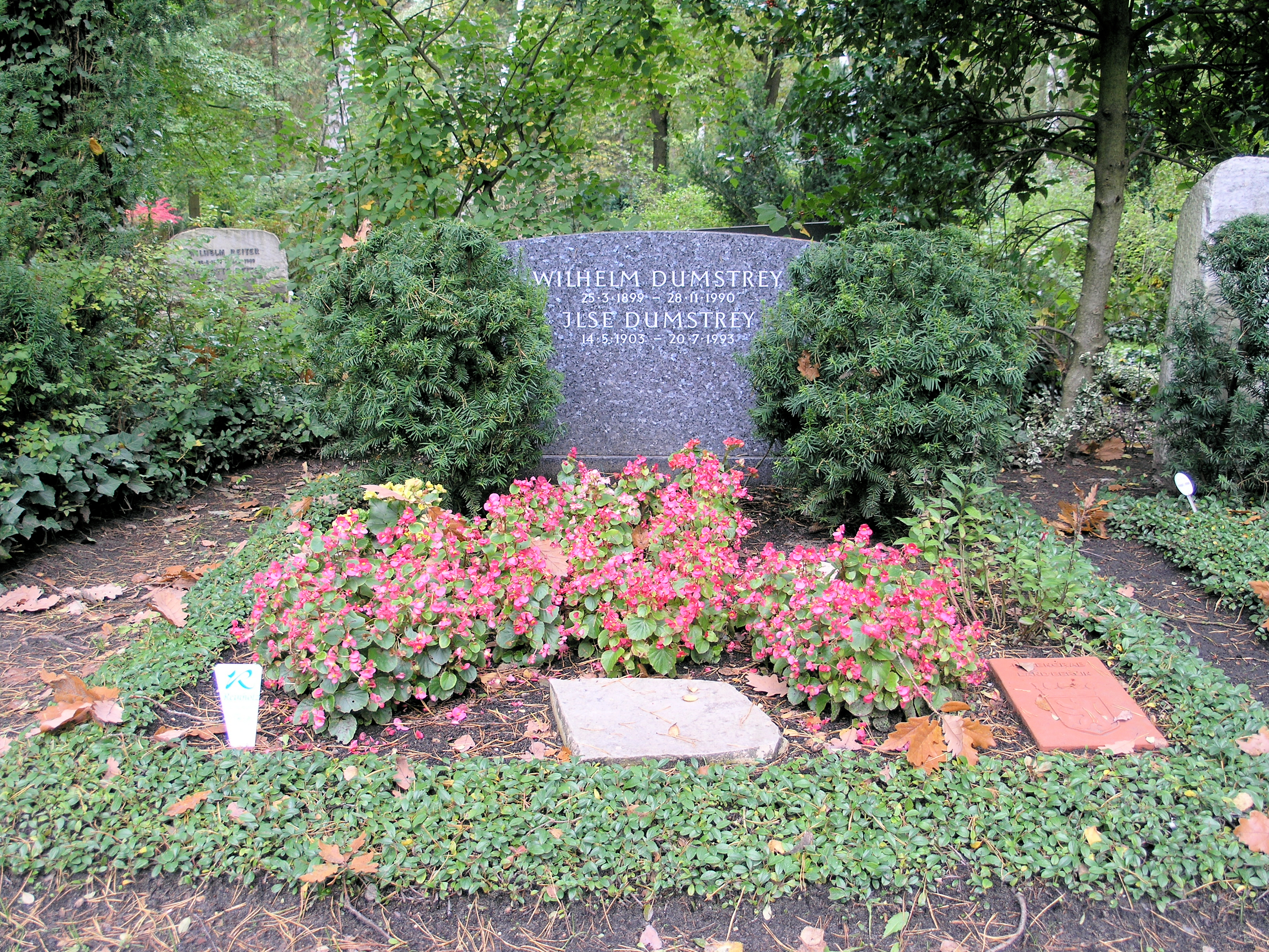 "Ehrengrab" (grave of honor), Wilhelm Dumstrey, Potsdamer Chaussee 75, Berlin-Nikolassee, Germany Koordinate:52°25′23″N 13°12′38″E / 52.42306°N 13.21056°E